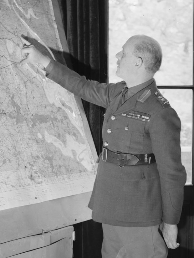 THE BRITISH ARMY IN FRANCE 1939. Lord Gort